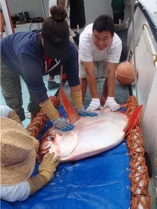 Researchers examine an opah, Lampris guttatus, caught off California (and later released).